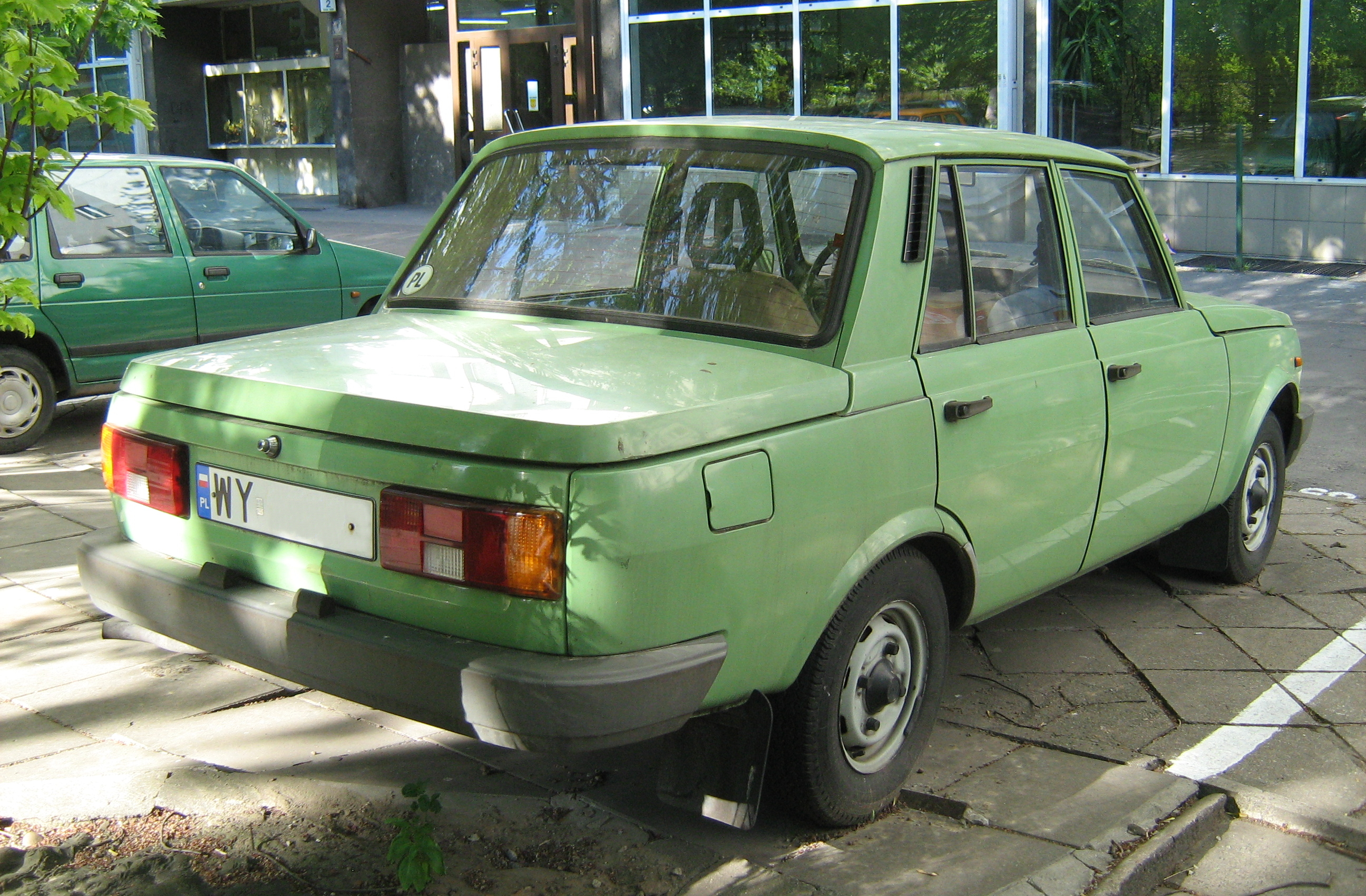 Wartburg 1.3 sedan (green) in Warsaw